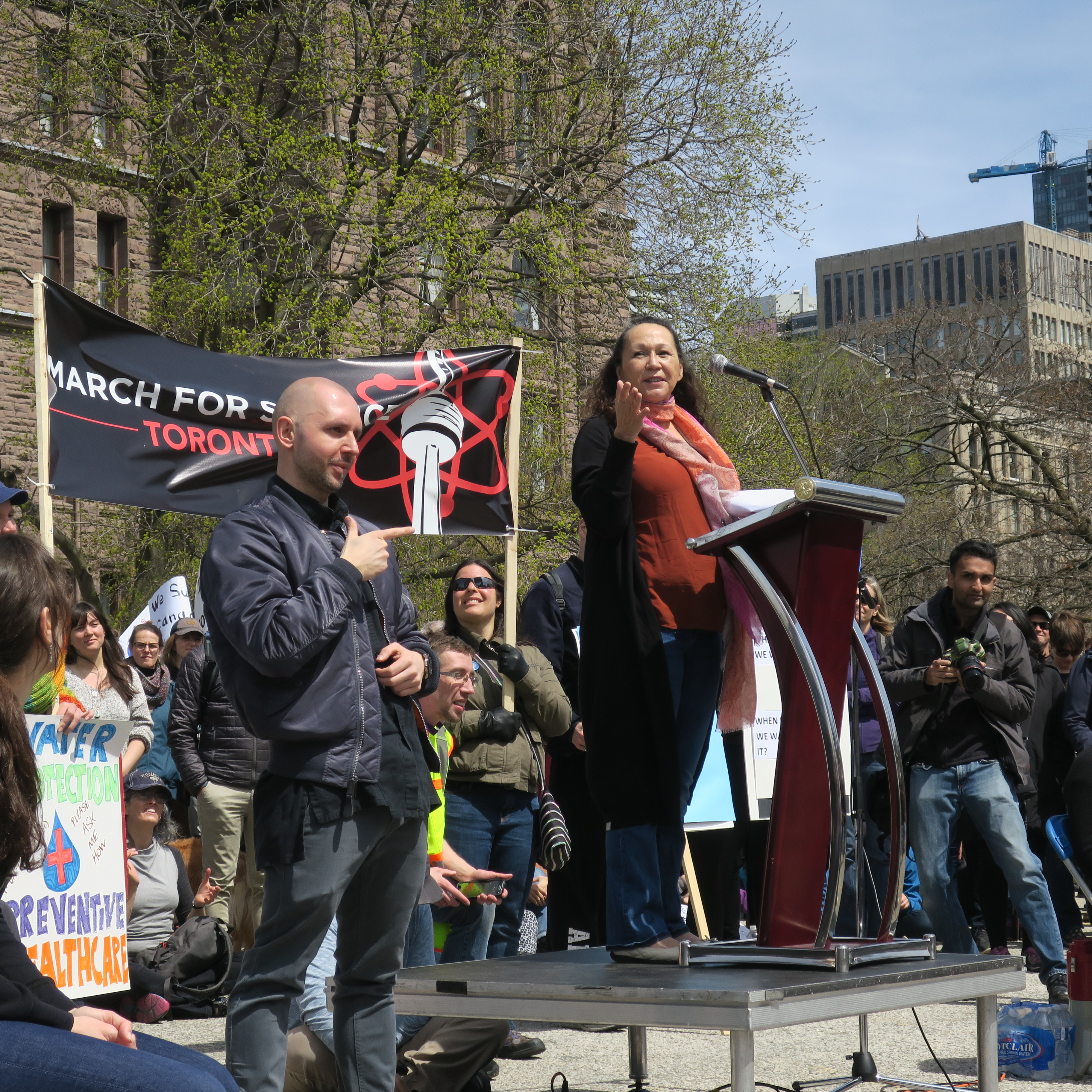 McMaster University Indigenous Studies Chair, Professor Dawn Martin-Hill spoke at the Toronto March for Science 2017